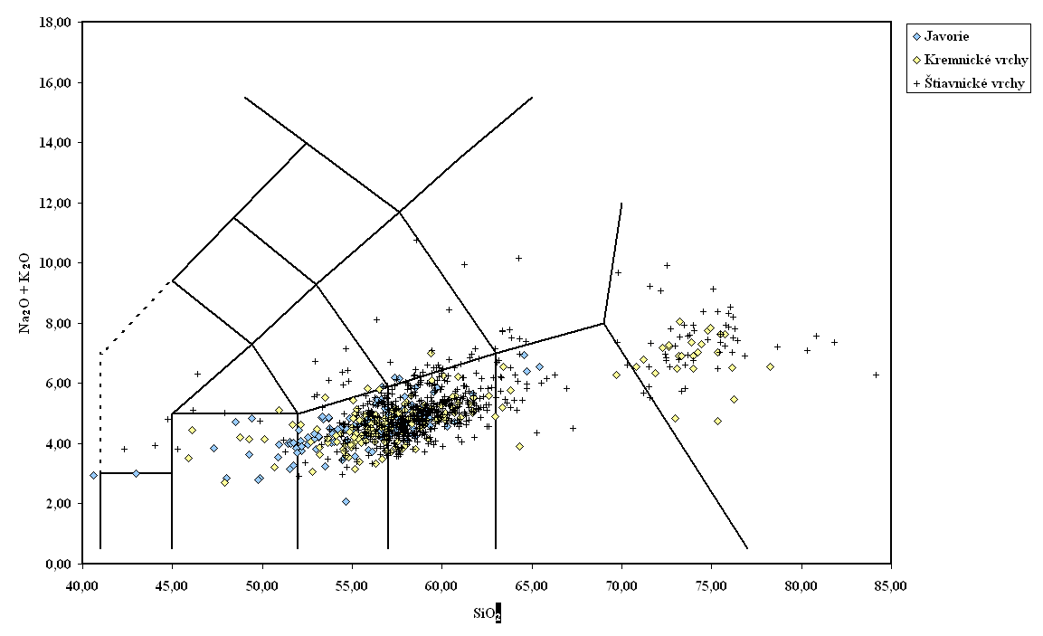 TAS Diagram of Central Slovakia Volcanic Field(CSVF)